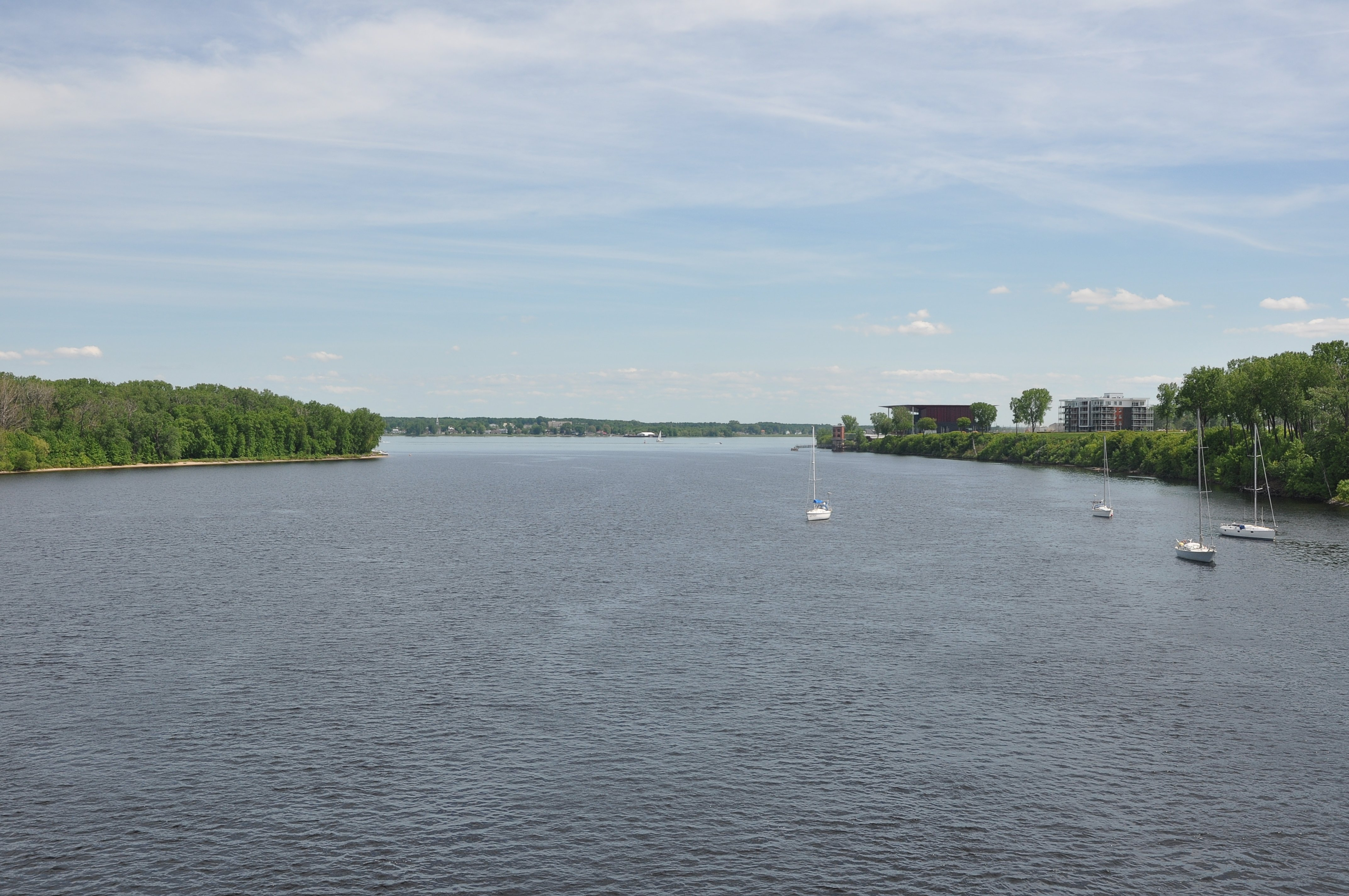 The main stream of the St Maurice from pont Duplessis